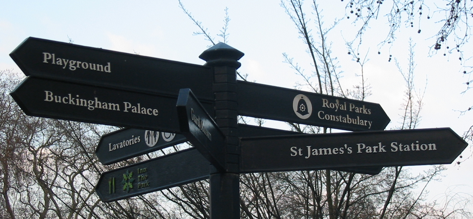 London